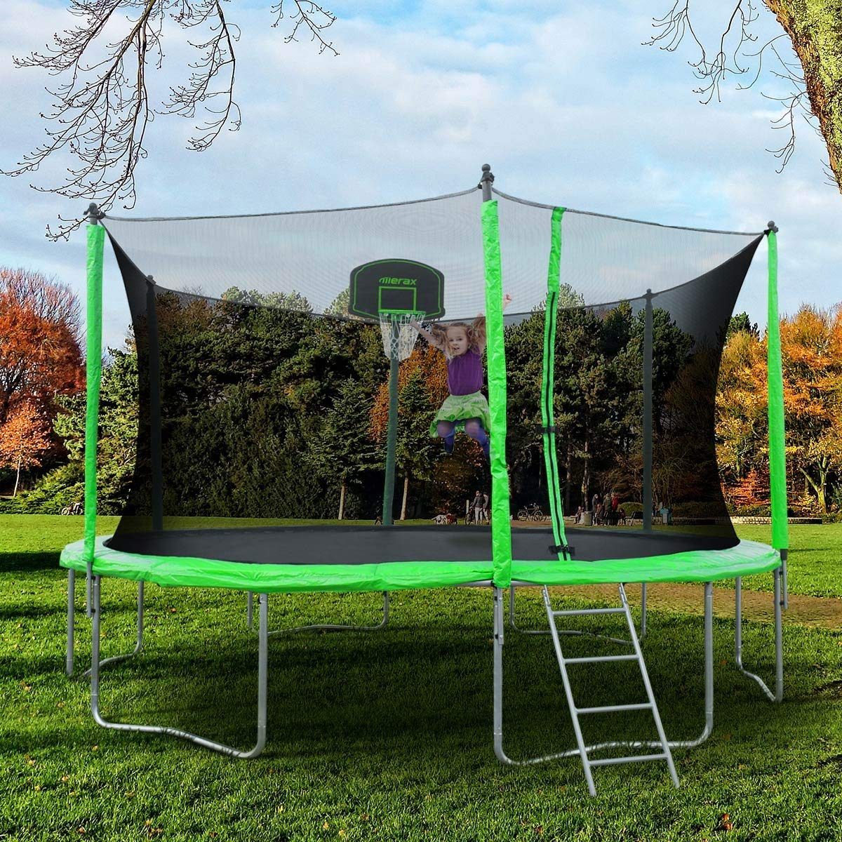 the Merax Mini Fitness Exercise Workout Trampoline gives your child the training you want them to have while they are still busy and eager to be able to jump back every day!